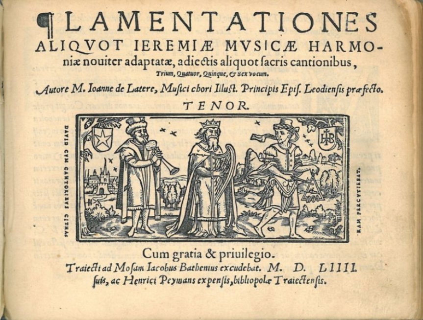 Title page of Jean de Latre's 'Lamentationes aliquot Jeremiae musicae harmoniae noviter adaptatae, adjectis aliquot sacris cantionibus, trium, quatuor, quinque et sex vocum', volume for tenor, published by Jacob Baethen in Maastrich in 1554